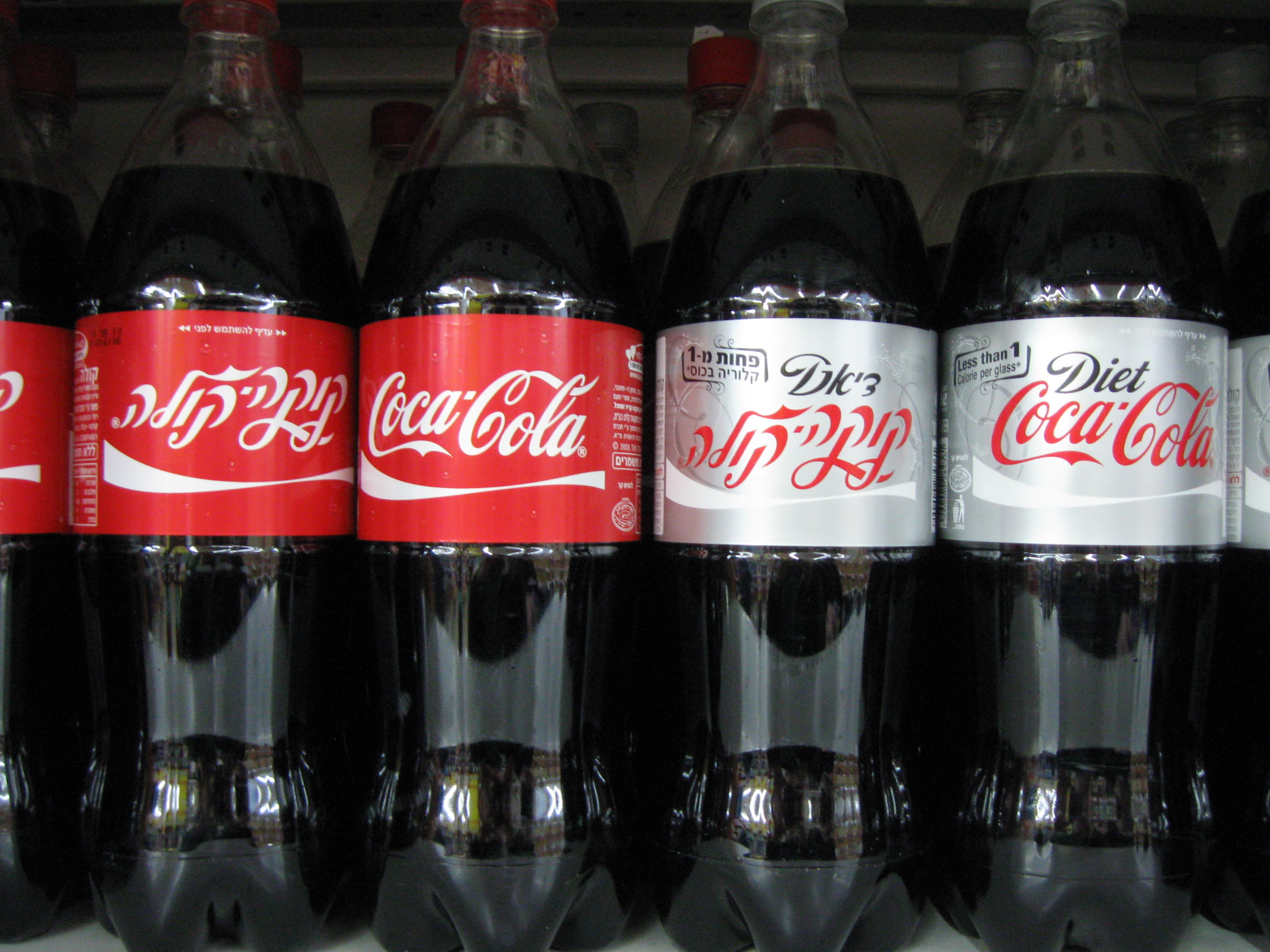 English and Hebrew Coke labels in an Israeli supermarket.